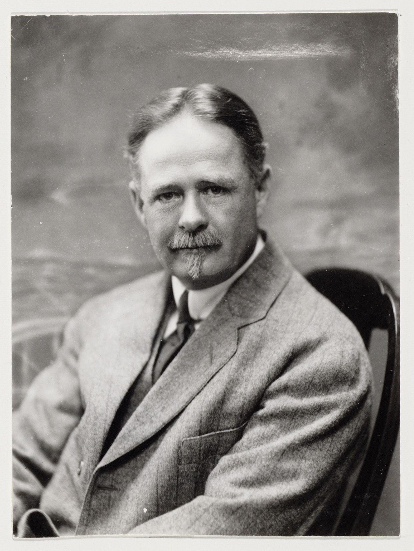 Photograph of William Henry Singer by Jacob Merkelbach (1877-1942)